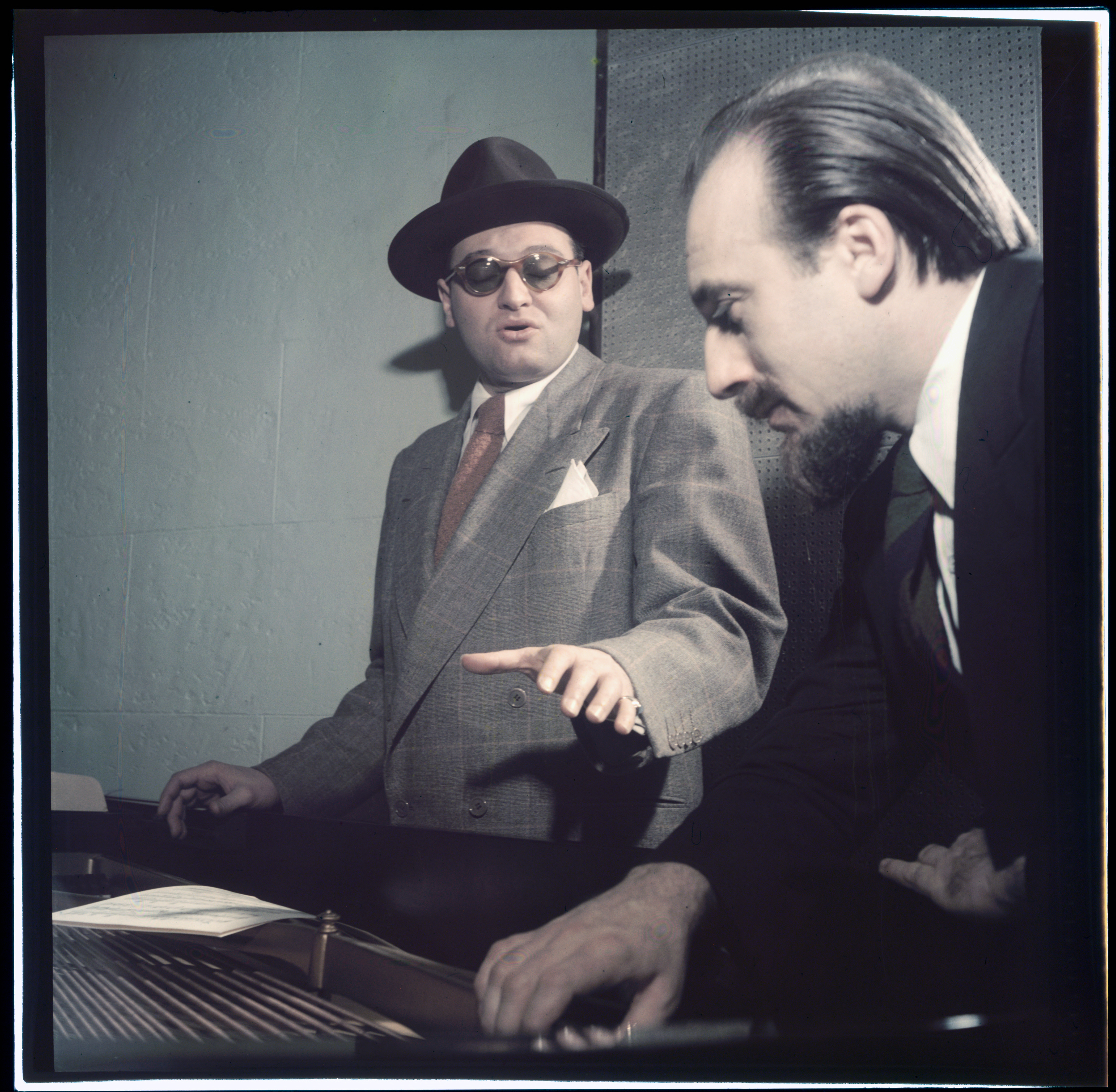 Gottlieb, William P., 1917-, photographer. [Portrait of Frankie Laine and Mitch Miller, New York, N.Y., between 1946 and 1948] 1 transparency : film, color. ; 2 1/4 x 2 1/4 in. Notes: Gottlieb Collection Assignment No. 196 Purchase William P. Gottlieb Forms part of: William P. Gottlieb Collection (Library of Congress). Subjects: Laine, Frankie, 1913- Miller, Mitch Jazz musicians--1940-1950. Jazz singers--1940-1950. Conductors (Music)--1940-1950. Format: Portrait photographs--1940-1950. Group portraits--1940-1950. Film transparencies--1940-1950. Rights Info: Mr. Gottlieb has dedicated these works to the public domain, but rights of privacy and publicity may apply. Repository: (transparency) Library of Congress, Prints & Photographs Division, Washington D.C. 20540 USA, Part Of: William P. Gottlieb Collection (DLC) 99-401005 General information about the Gottlieb Collection is available at Persistent URL: Call Number: LC-GLB04- 1340 This work is from the William P. Gottlieb collection at the Library of Congress. Rights and restrictions.In accordance with the wishes of William Gottlieb, the photographs in this collection entered into the public domain on February 16, 2010.